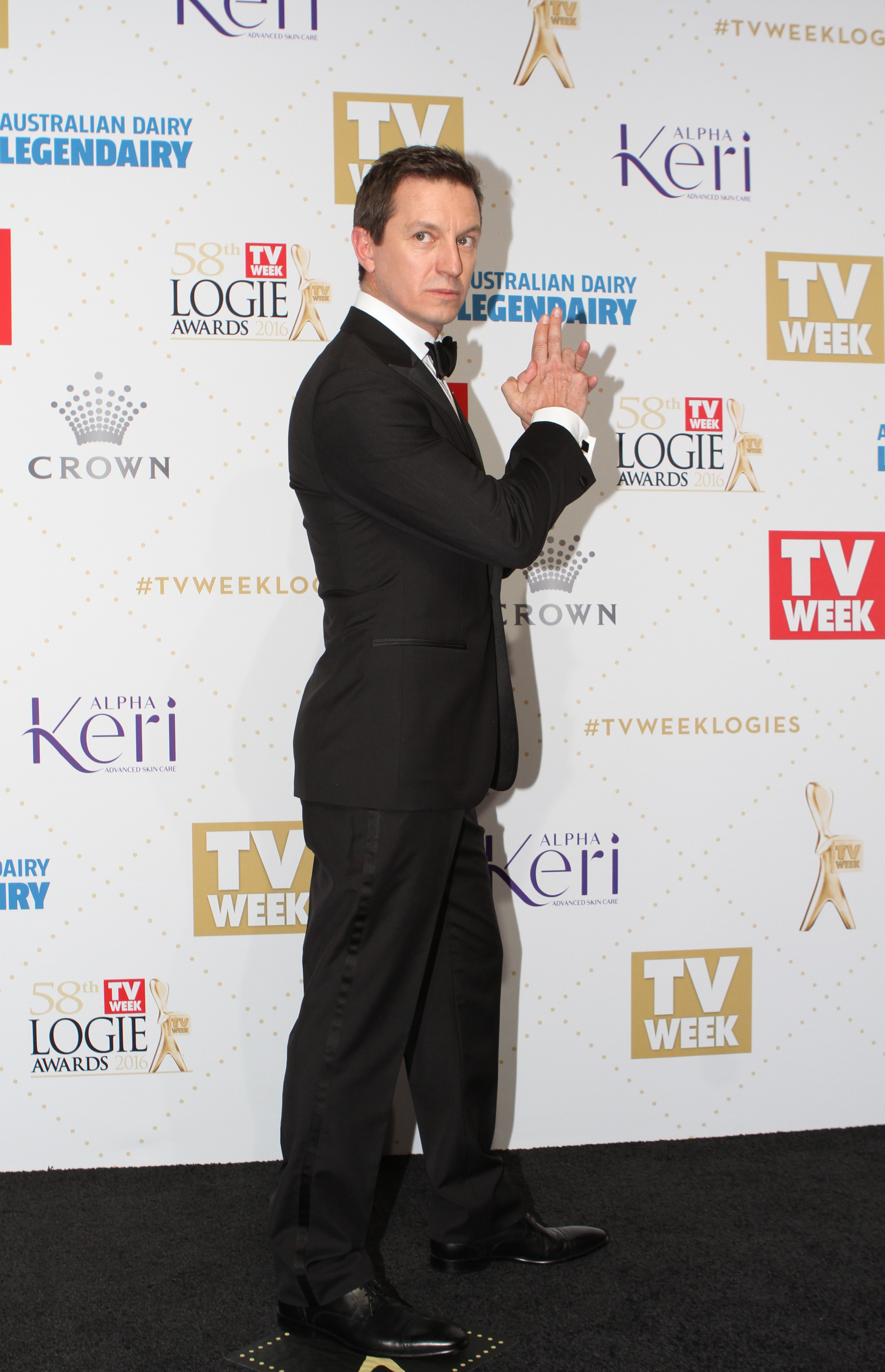 Rove McManus arrives at the 58th Annual Logie Awards at Crown Palladium